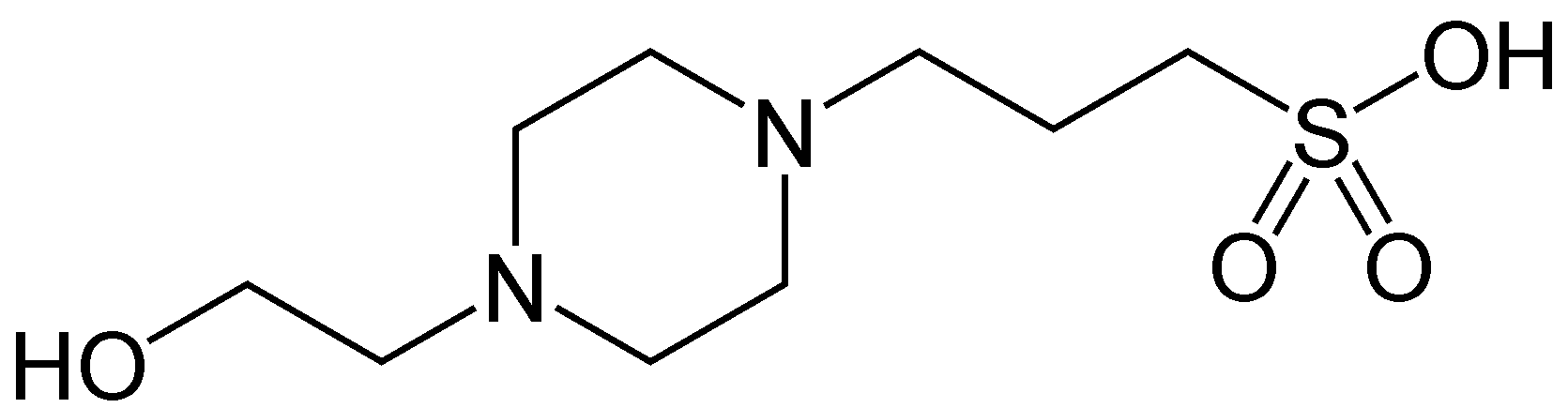 HEPPS, 3-[4-(2-hydroxyethyl)piperazin-1-yl]propane-1-sulfonic acid